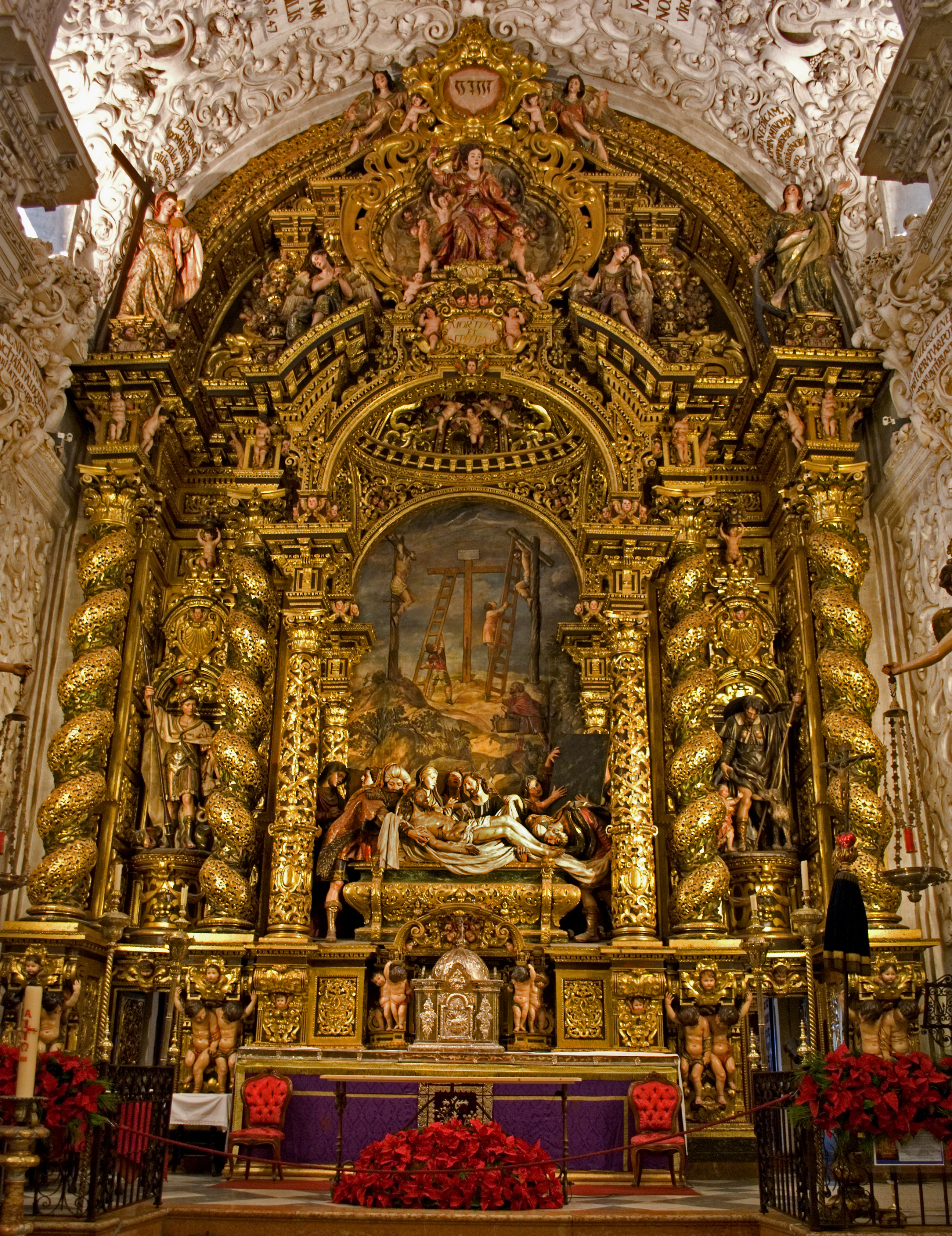 Hospital of Caridad, Seville